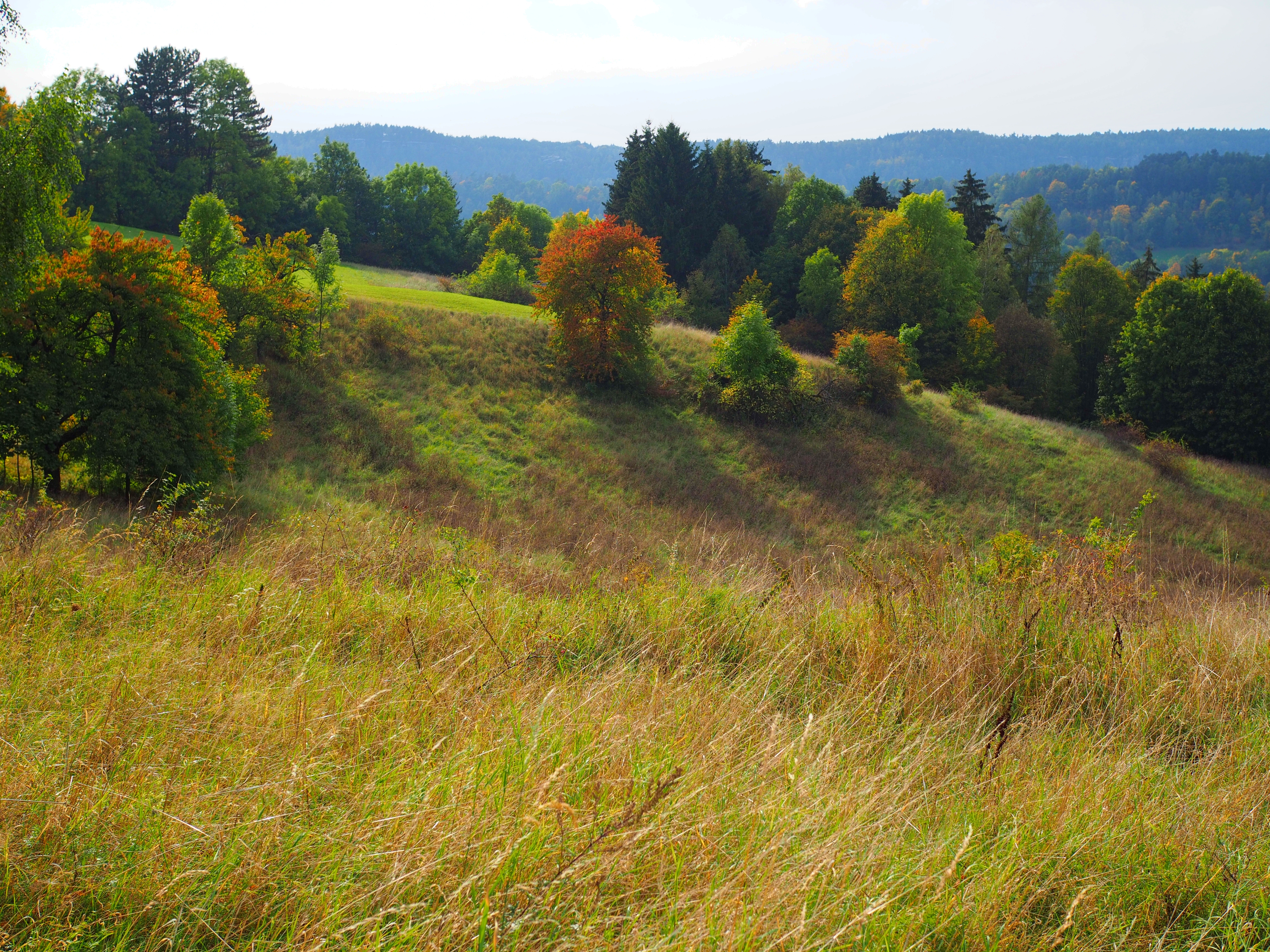 Prackov volcano - crater